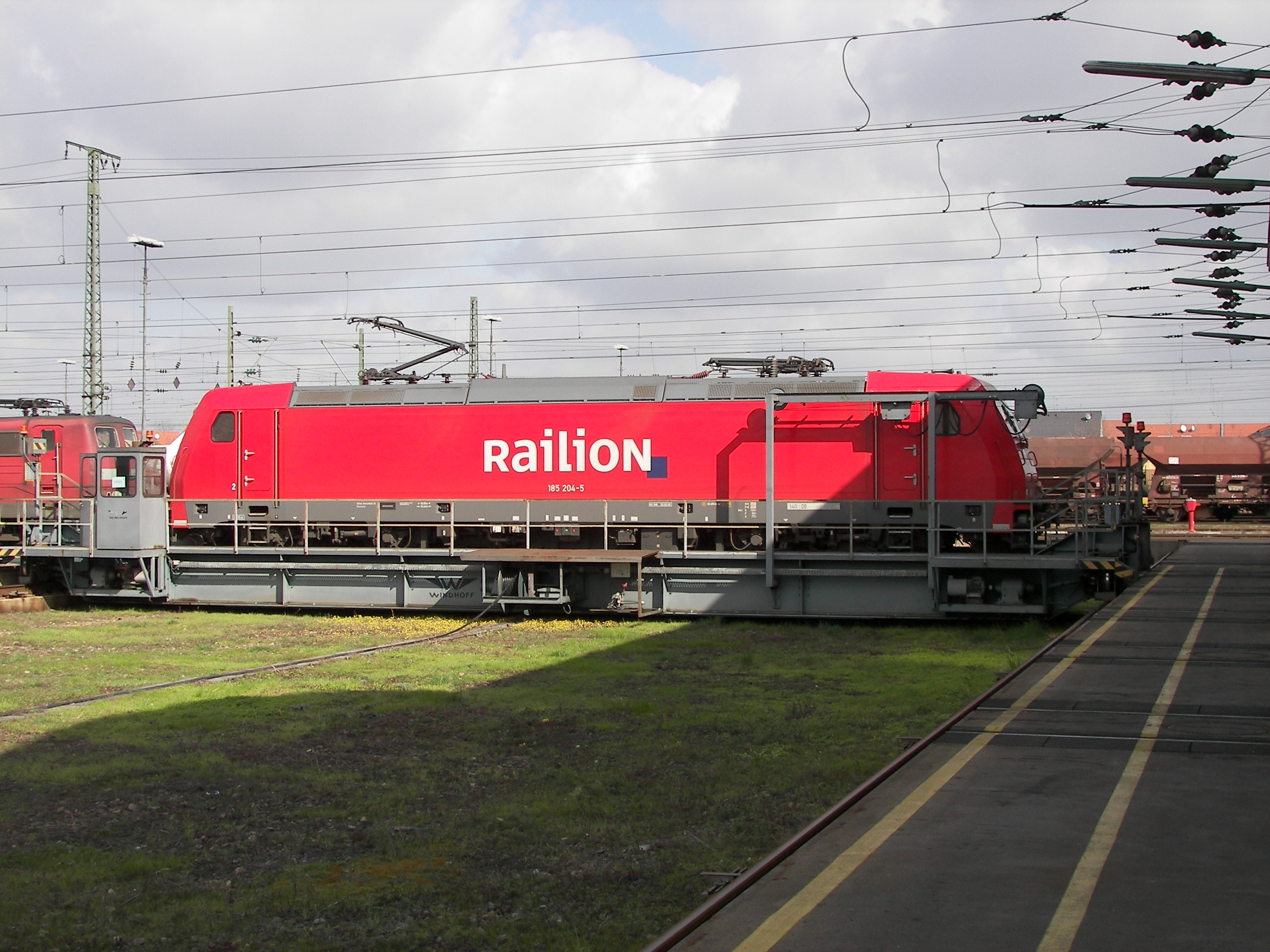 DB Class 185 on transfer table in Mannheim